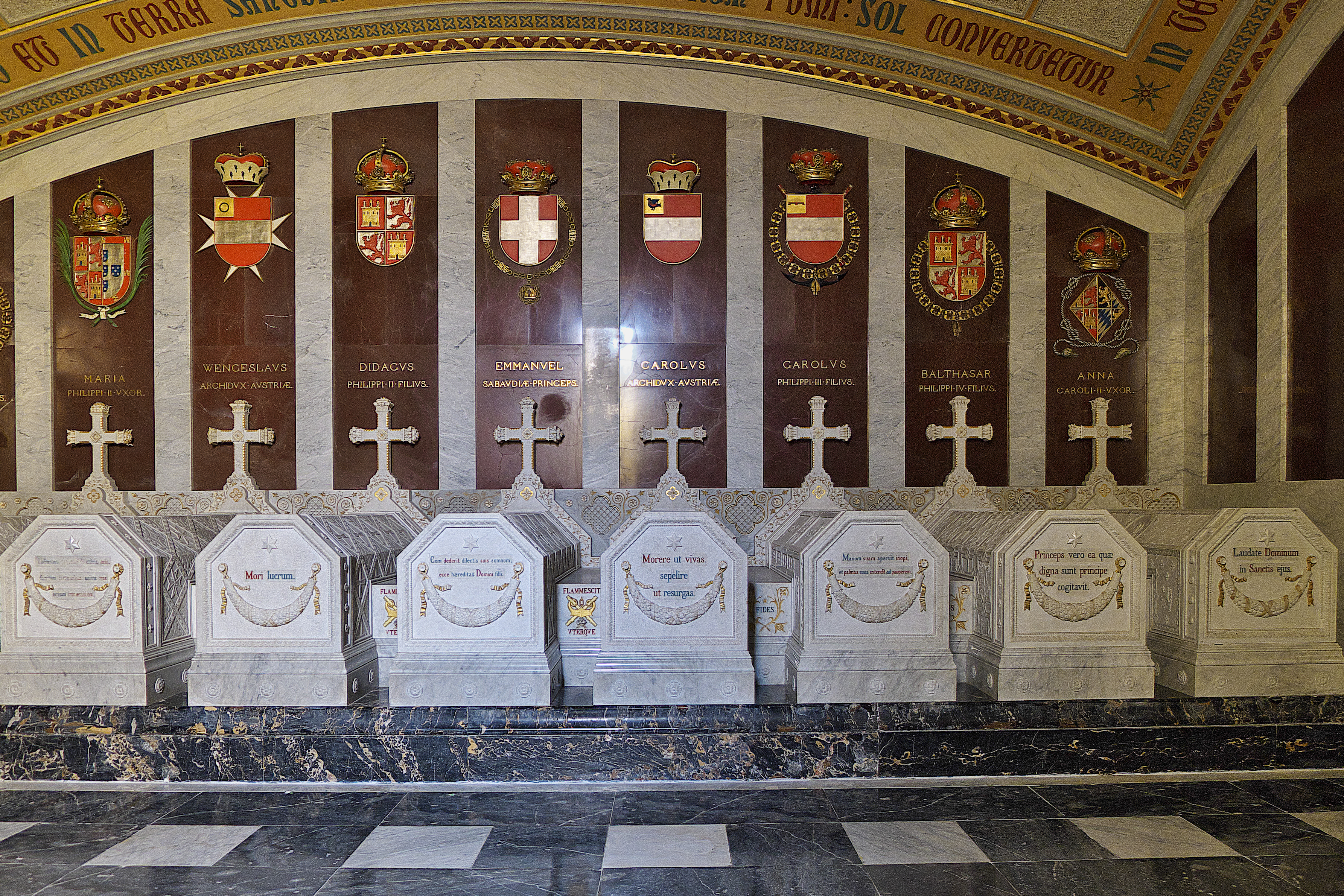 Pantheon of the Infantes - Chapel 9